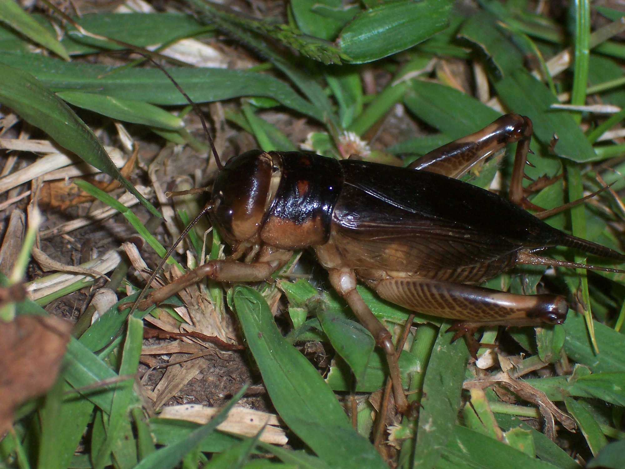 Large brown cricket (Tarbinskiellus portentosus, syn. Brachytrupes portentosus); female. From Kuningan, West Java, Indonesia.